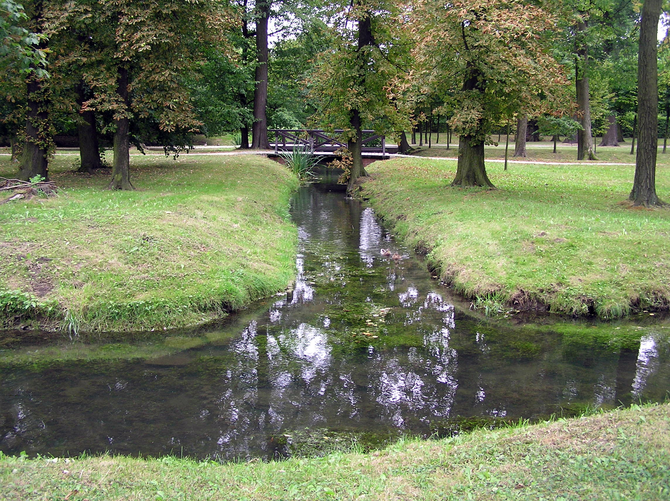 Poland, Wrocław, Brochowski Park, Brochówka River